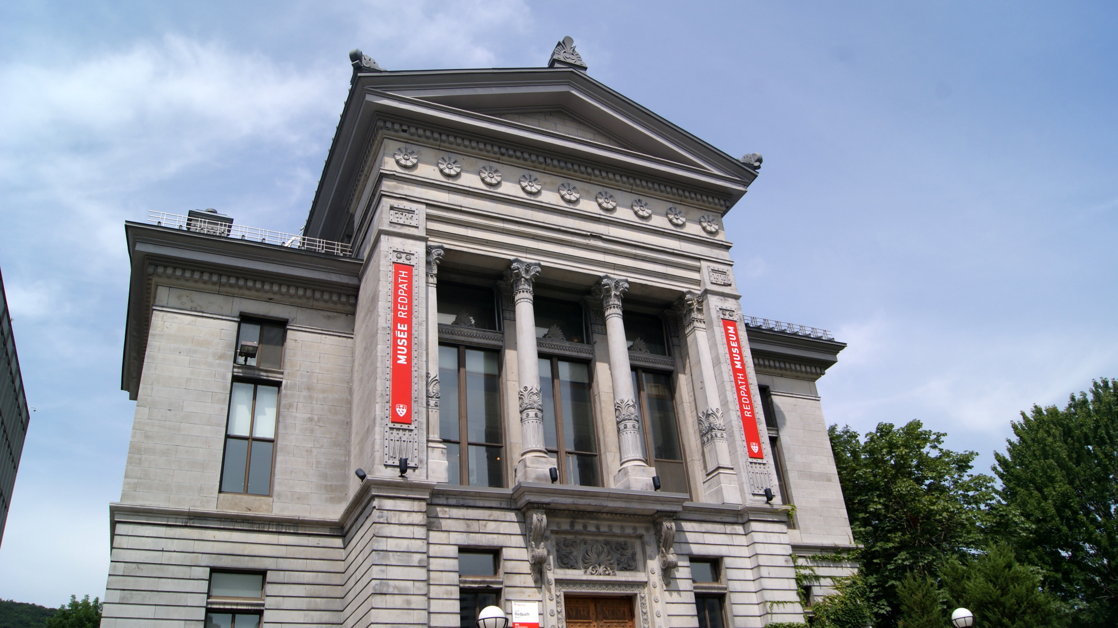 Redpath Museum